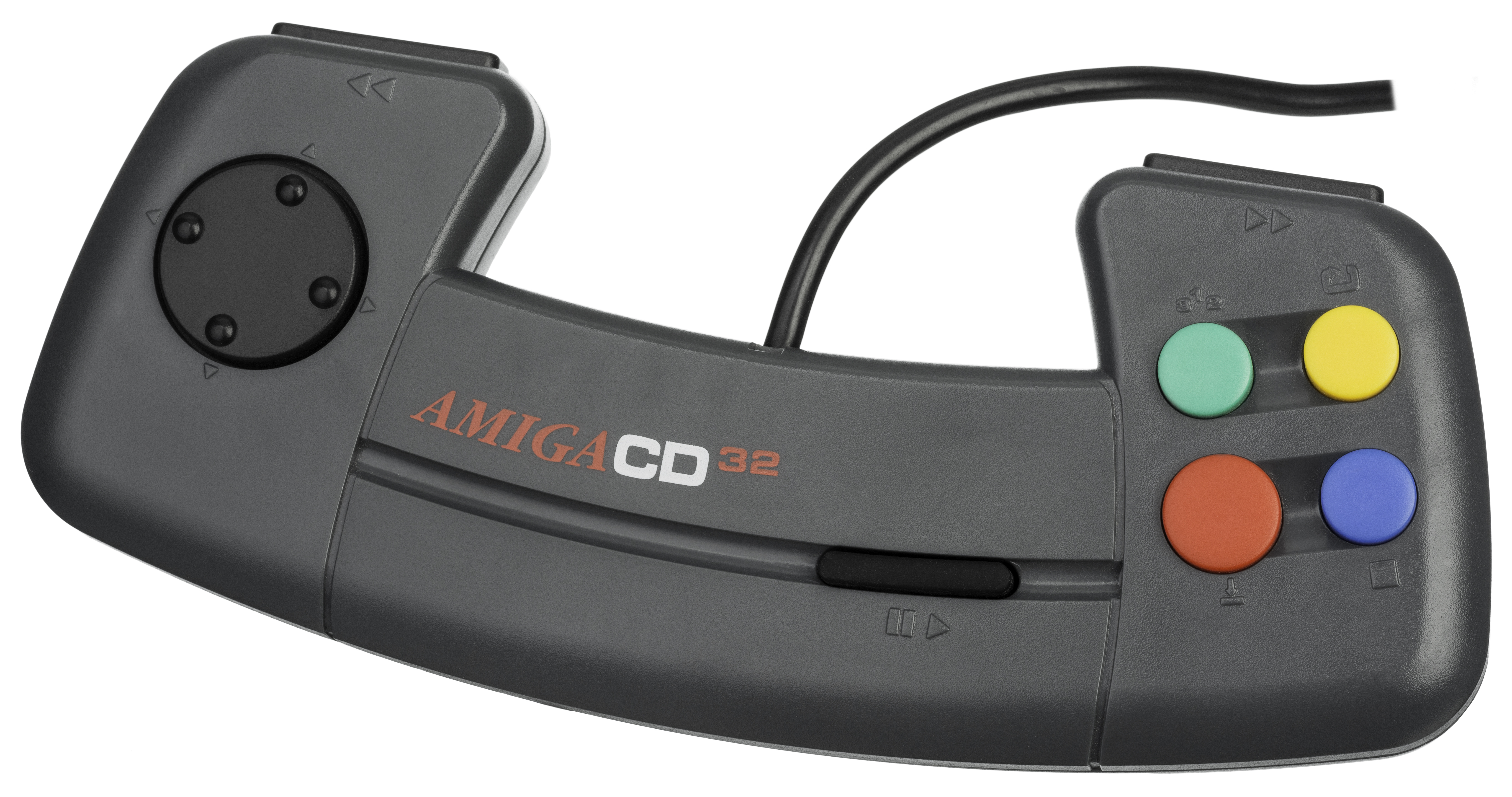 The controller for the Amiga CD32, a 32-bit, CD-ROM based video game console from Commodore.